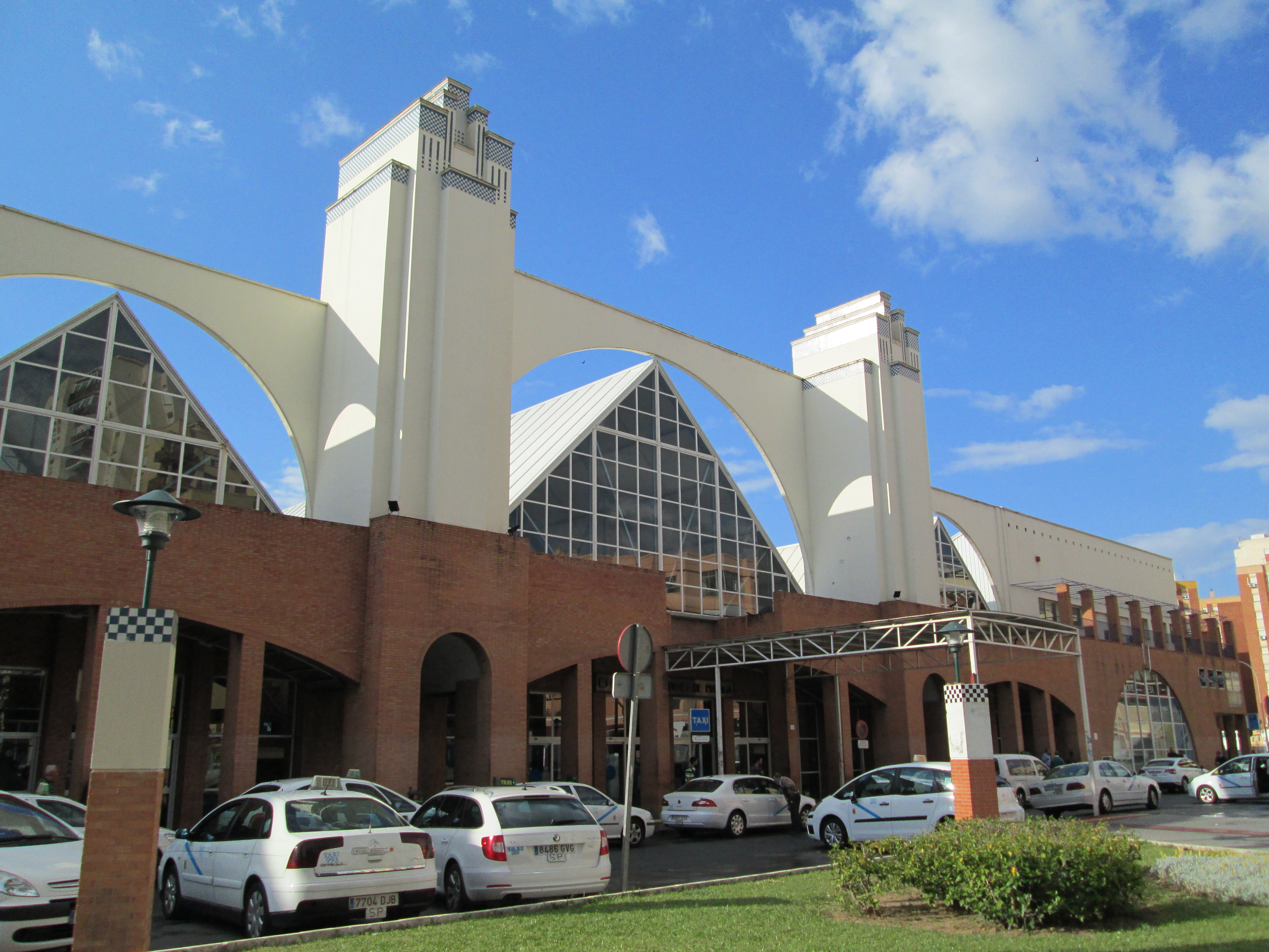 Malaga